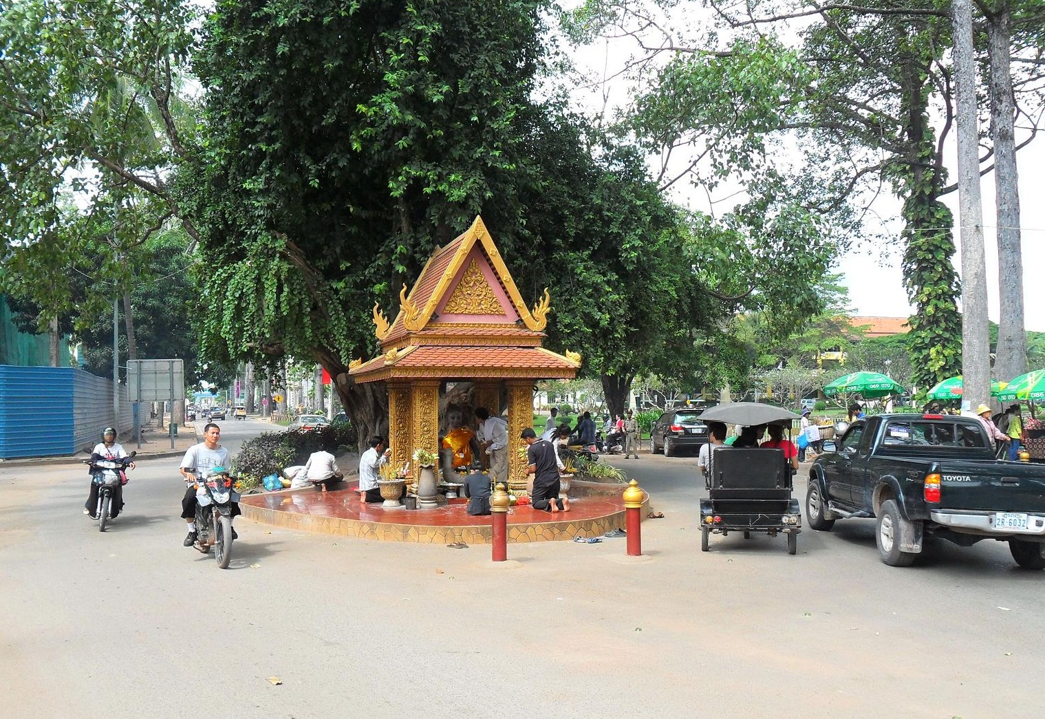 Buddhist shrine in the middle of the road, Siem Reap, Cambodia